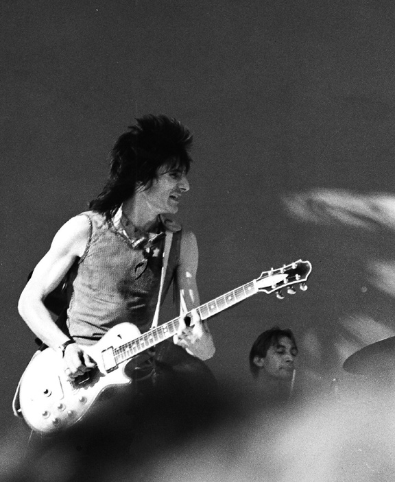 Wood, of The Rolling Stones. Candlestick Park, San Francisco (Charlie Watts in background)